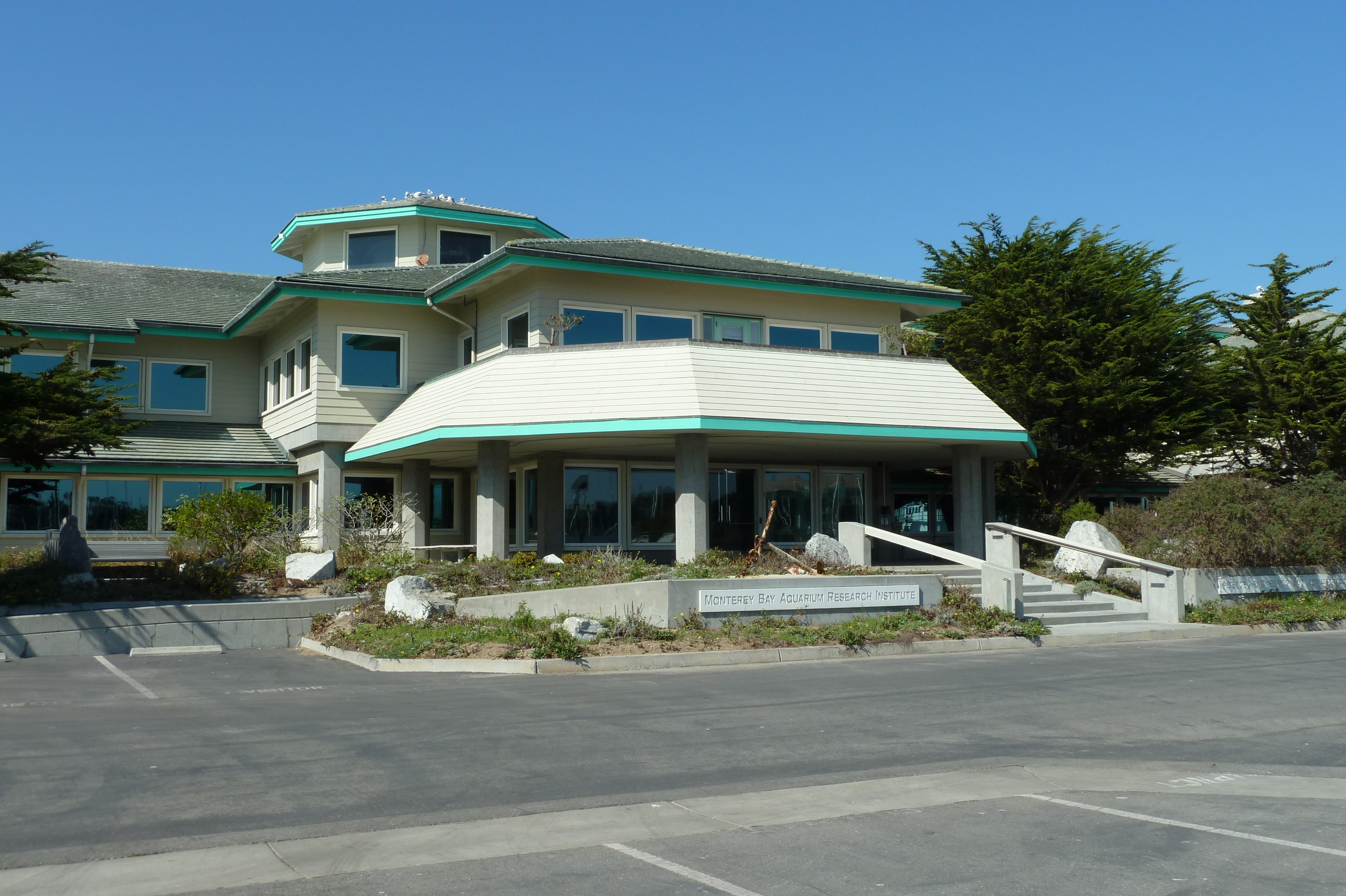 Main entrance of Monterey Bay Research Institute (MBARI), 7700 Sandholdt Road, Moss Landing, California, United States